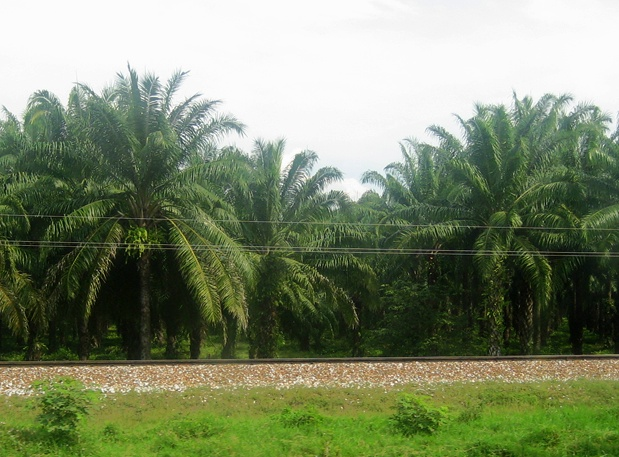 Image of oil palm plantation in Magdalena, Colombia